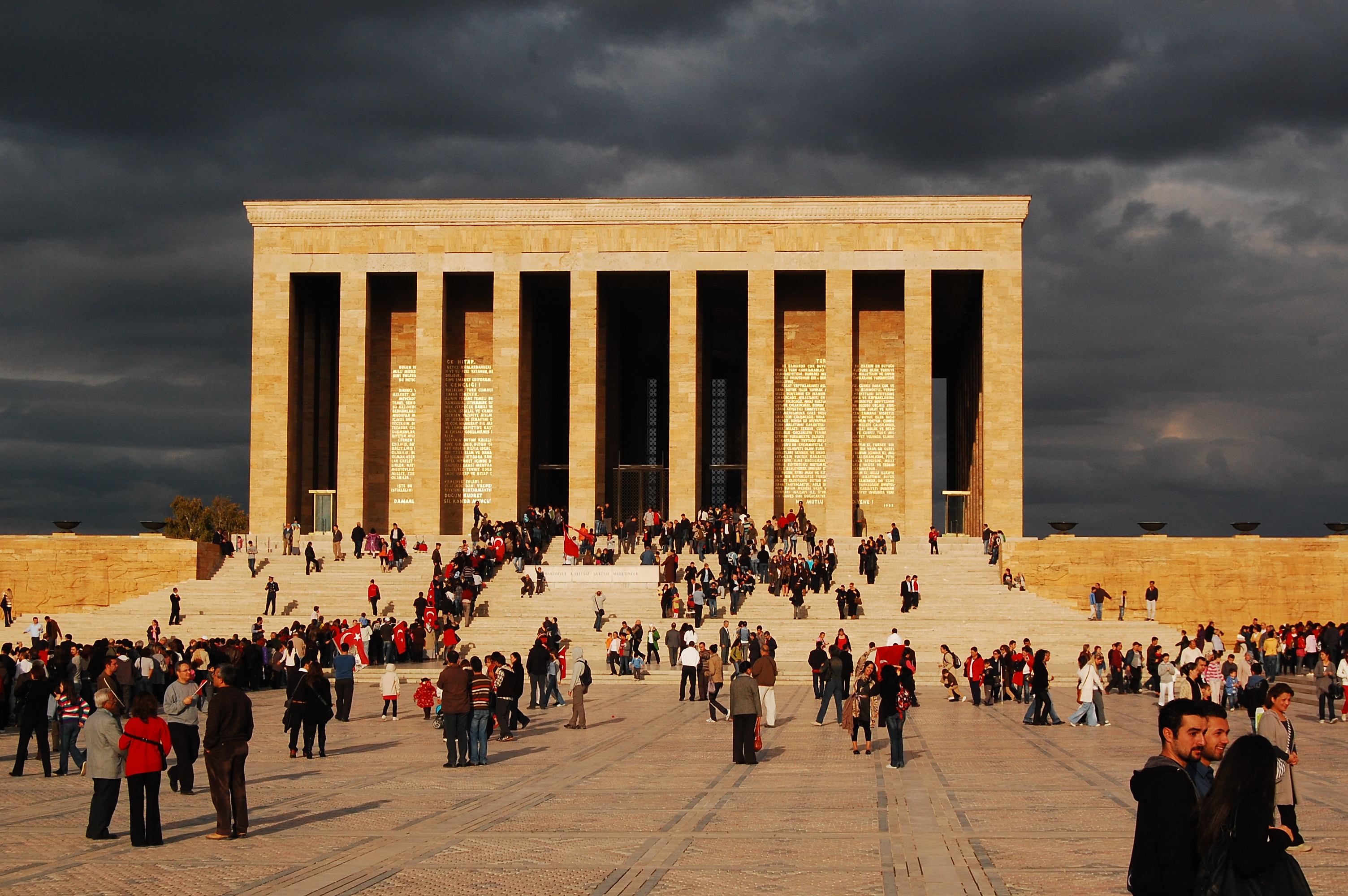 Anıtkabir, Kemal Atatürk's Mausoleum. 10 Nov,2009 Anıtkabir by UMUT YASAR.